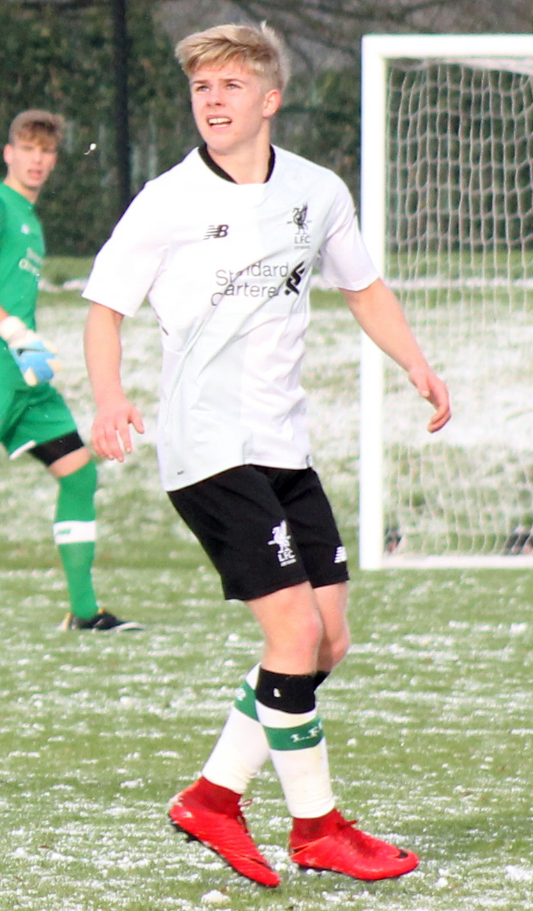 Edvard Tagseth of Liverpool during the U18 Premier League match at The Cliff, Salford, England on Saturday 9 December 2017.